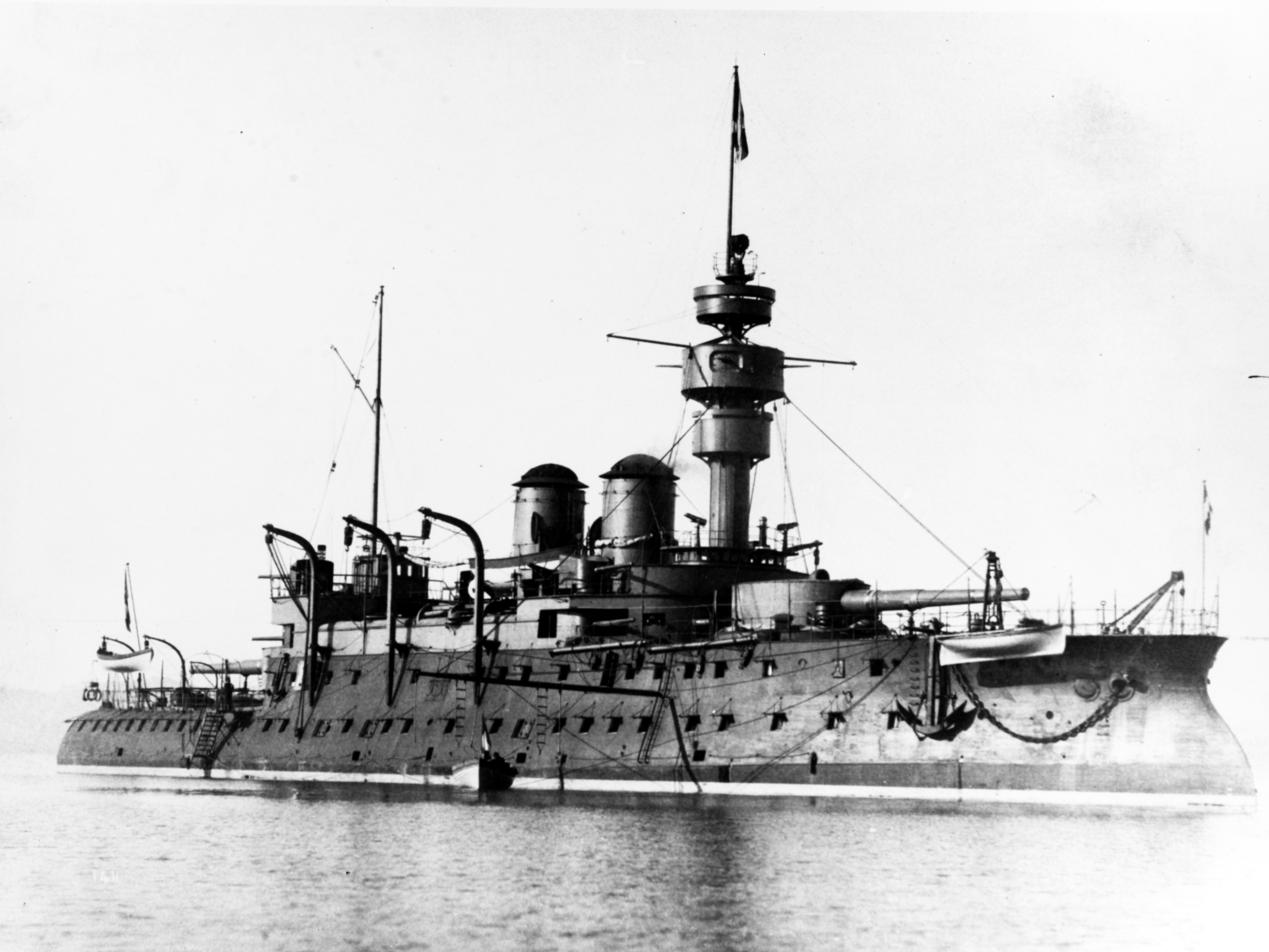 The French coastal-defense ironclad Bouvines